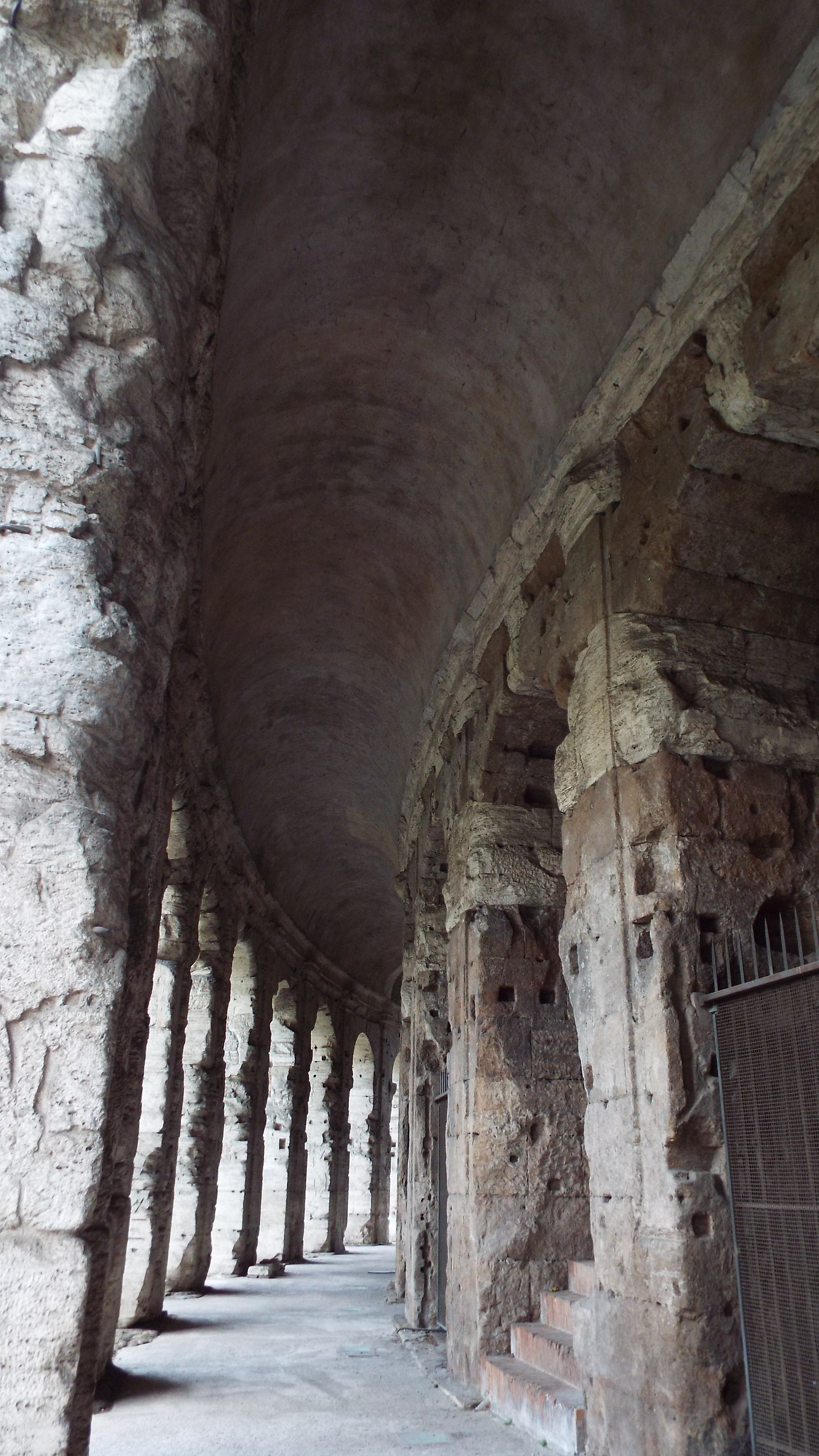 Roman old building